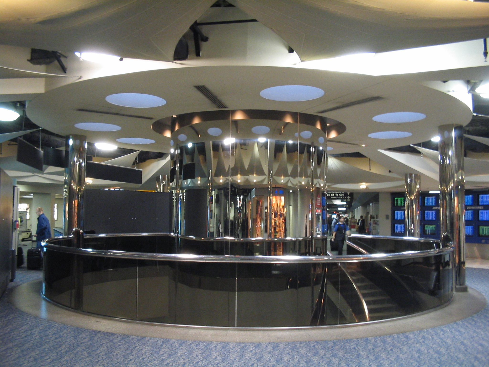 The entrance to Midfield Concourse D at Washington Dulles International Airport. David Benbennick took the picture on Friday, April 22, 2005 at 5:19 PM (local time).